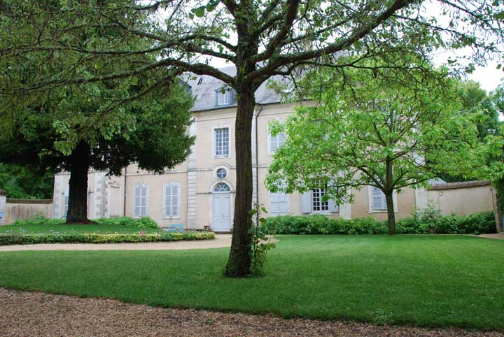 Nohant (Indre) (France) Limburgs: Landgood van George Sand, Nohant (Indre) (Frankriek)